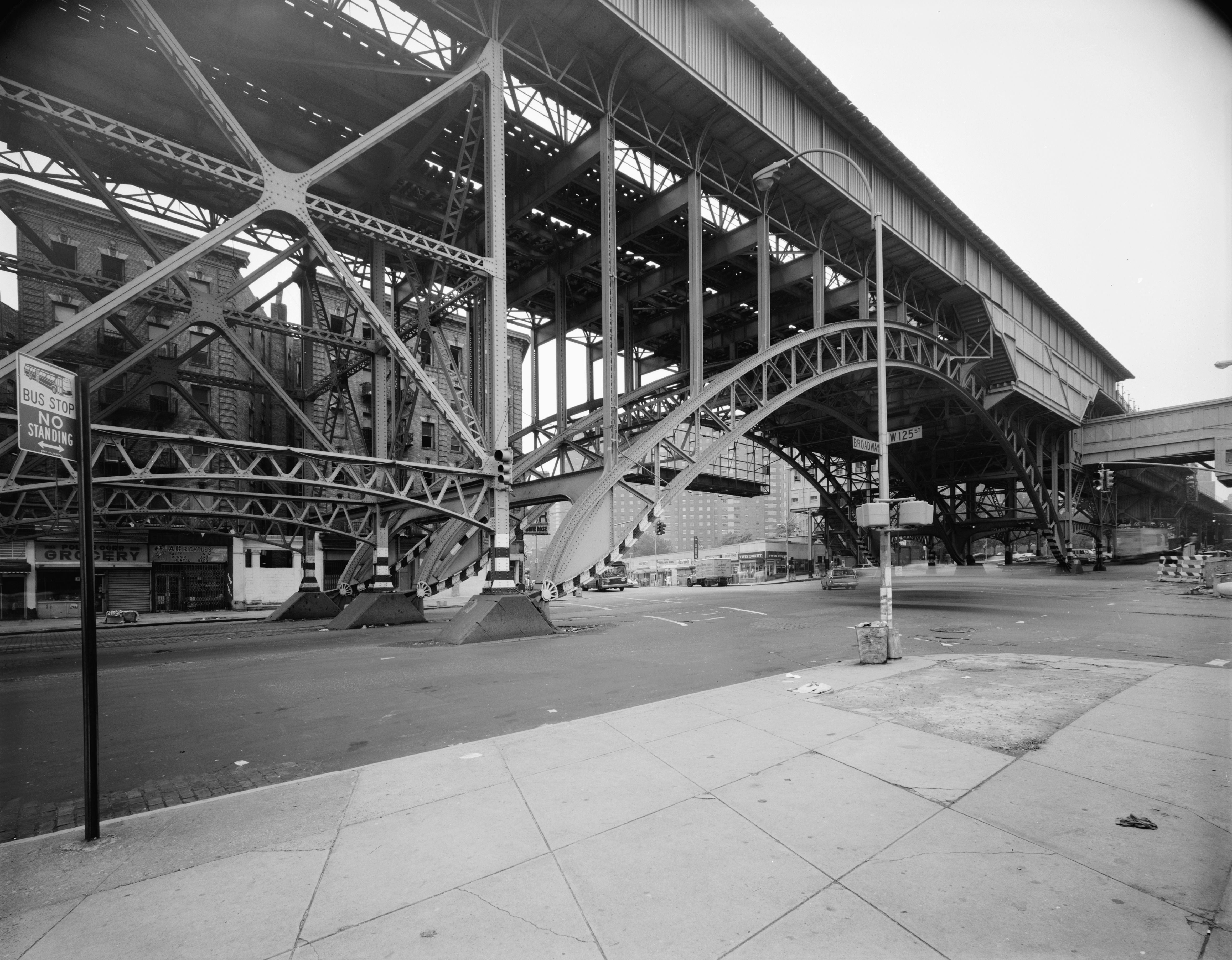 125th Street station on the IRT Broadway-Seventh Avenue Line, looking southeast.This viaduct allows trains to remain relatively level while traversing the Manhattan Valley. The next stations in both directions are underground.